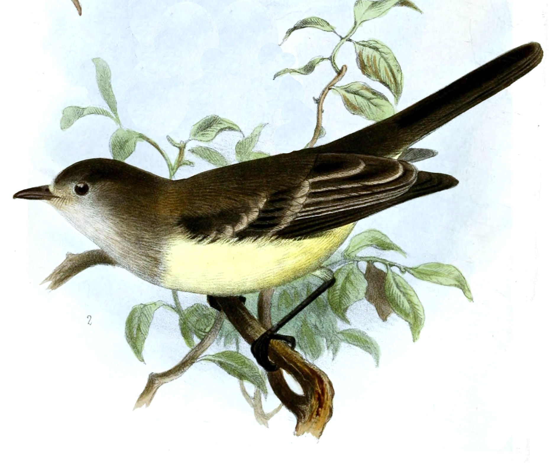 Pearly-vented Tody-tyrant (above), Northern Scrub-flycatcher (below)